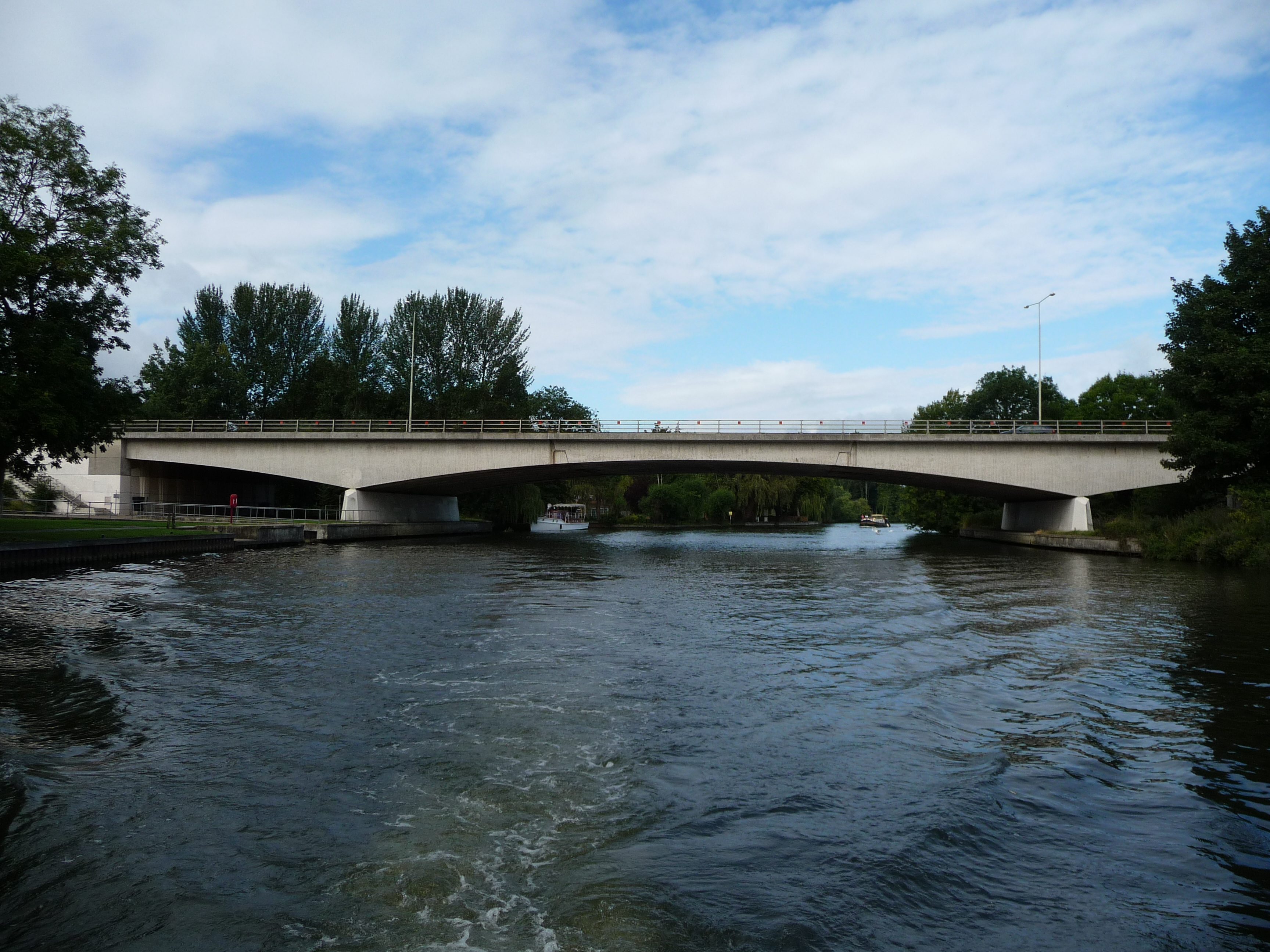 Downstream side of the Queen Elizabeth Bridge carrying the A332 over the Thames at Windsor